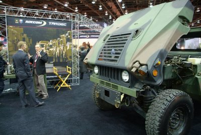 An XM1124 plug-in hybrid Humvee on an M1113 Humvee chassis powered by a diesel-series hybrid featuring an all-electric drive train.